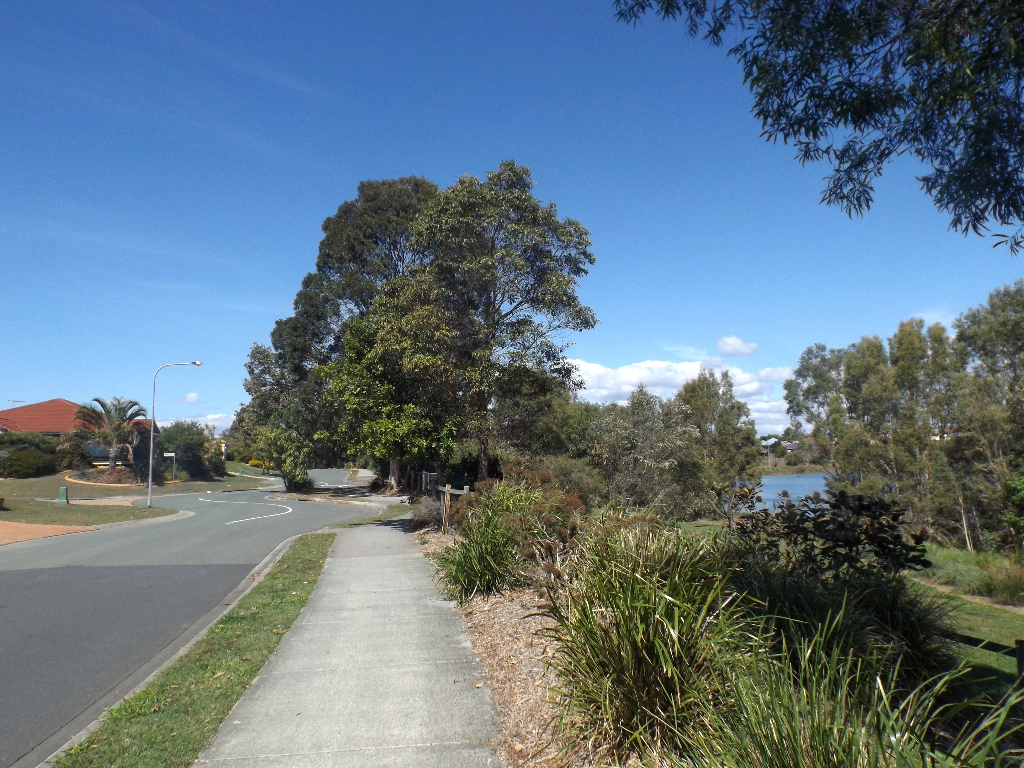 Photo of Halpine Lake and Topaz Drive at Mango Hill, Moreton Bay Region, Queensland, Australia.